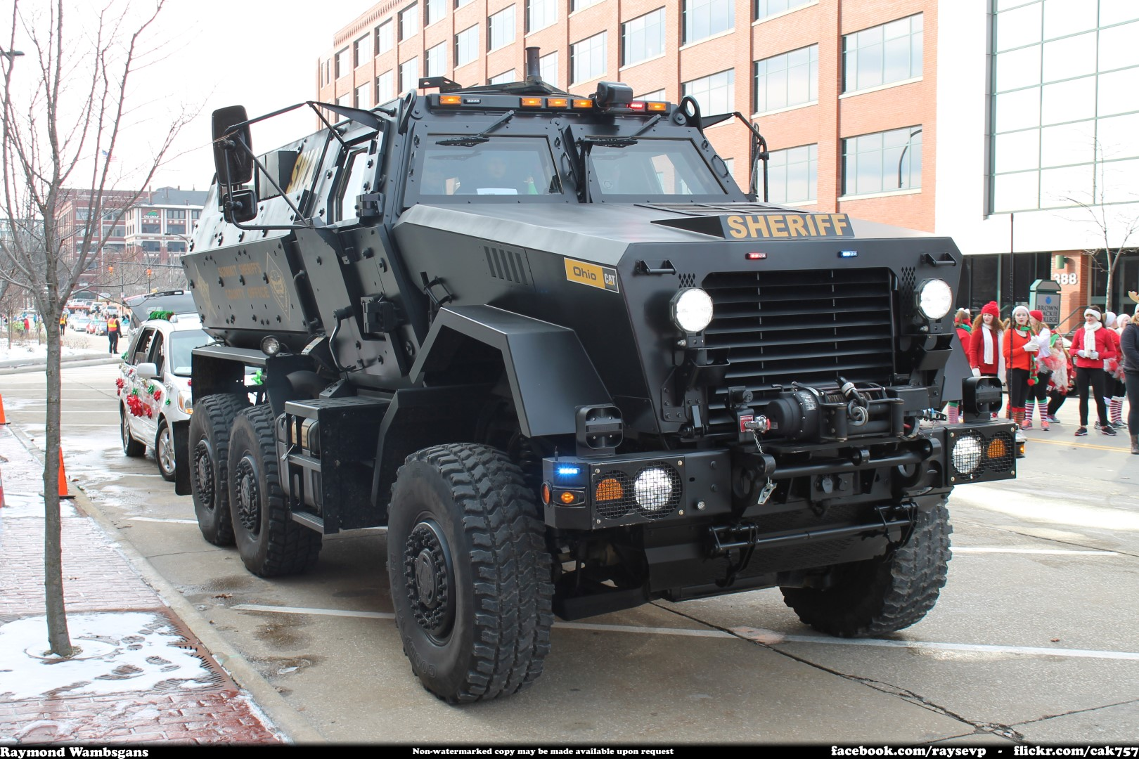 BAE Caiman MRAP recently acquired by the Summit County Sheriffs Office in Northeast ohio